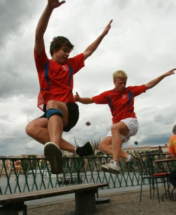 Legendary and never defeated footbag double Jan Weber and Václav Klouda. 4 times World champions.